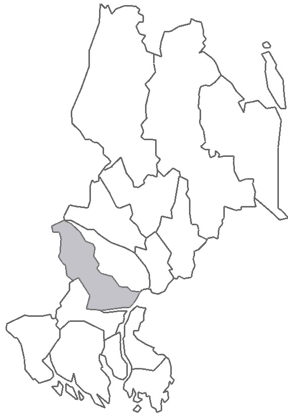 Map describing the location of Hagunda Hundred in Uppsala County, Sweden.